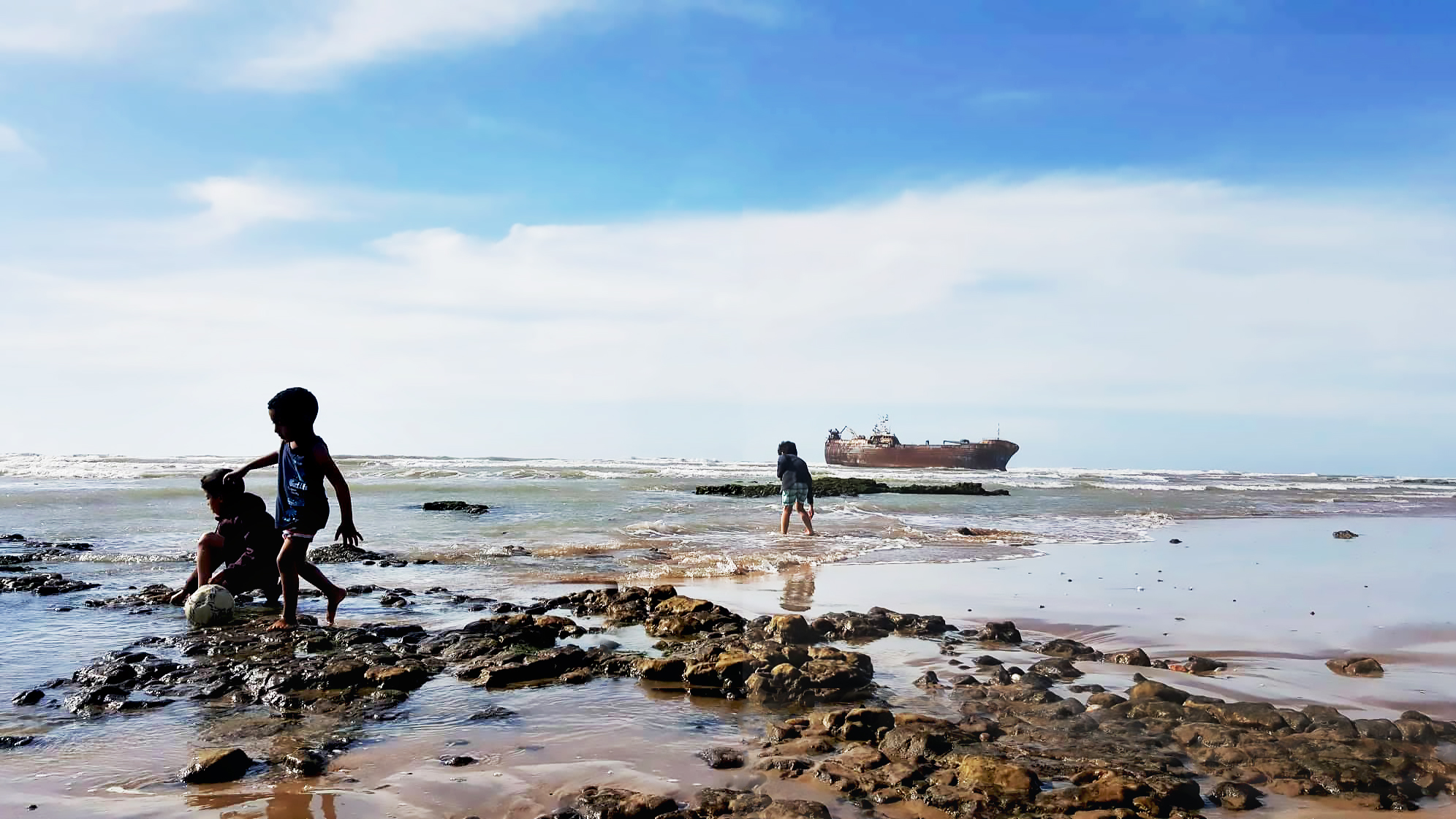 Children playing football in Laayoune port ( El Marsa ) , Morocco, with the stranded boat "Que Sera Sera" in the background.